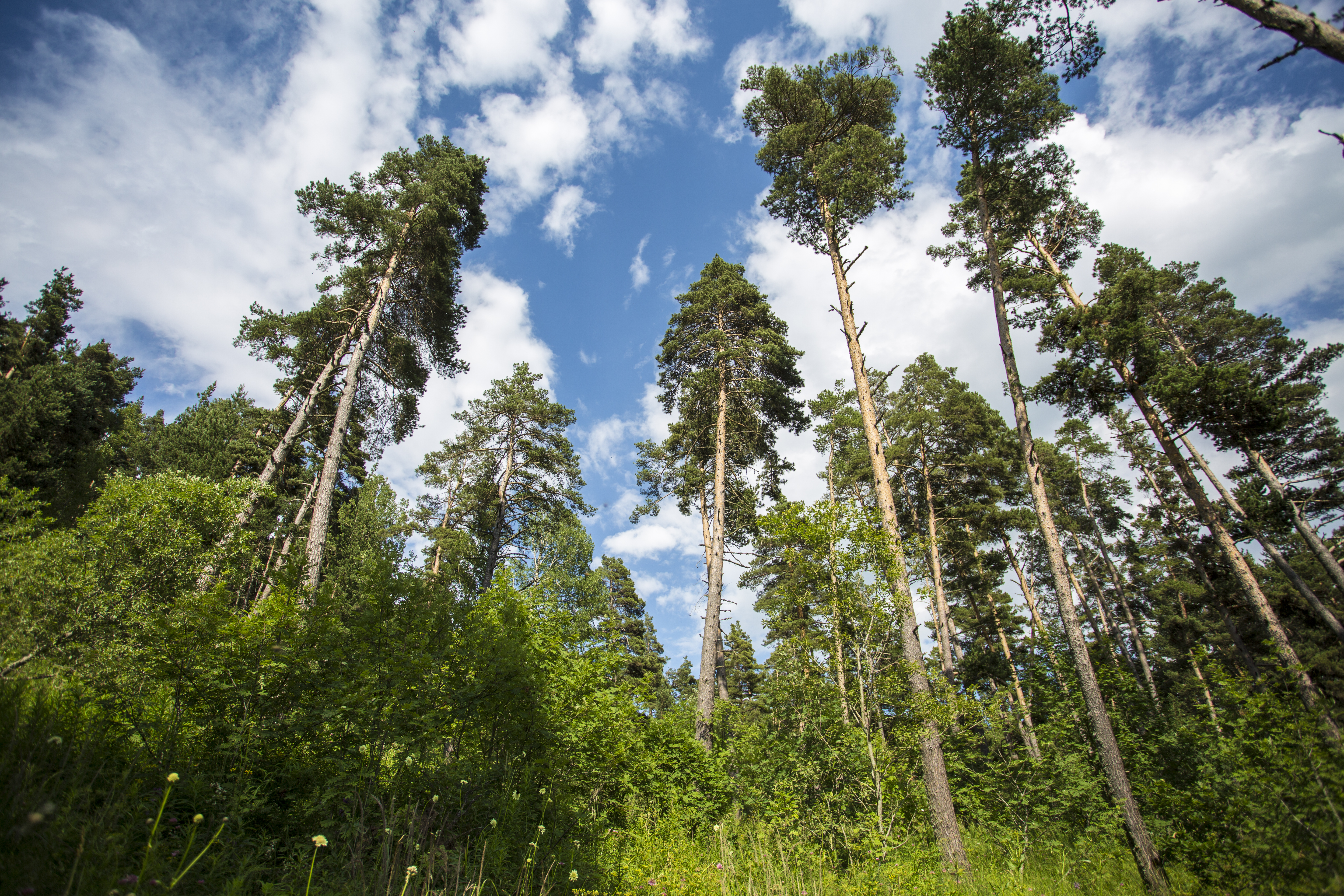 Javakheti Protected Areas was established in 2011. It includes Javakheti National Park, Kartsakhi Managed Reserve, Sulda Managed Reserve, Khanchali Managed Reserve, Bugdasheni Managed Reserve and Madatapa Managed Reserve, Tetrobi Managed Reserve. Javakheti Protected Areas include Municipalities of Akhalqalaqi and Ninotsminda. There are lots of lakes on Javakheti Plateau, including the biggest one – Lake Paravani. The highest point of Javakheti is Mount Great Abuli, with a height of 3,300 meters above sea level. Javakheti upland is the coldest places among settlements. It is characterized by dry continental climate, while the average annual temperature is quite low. In winter Javakheti lakes freeze for a long time